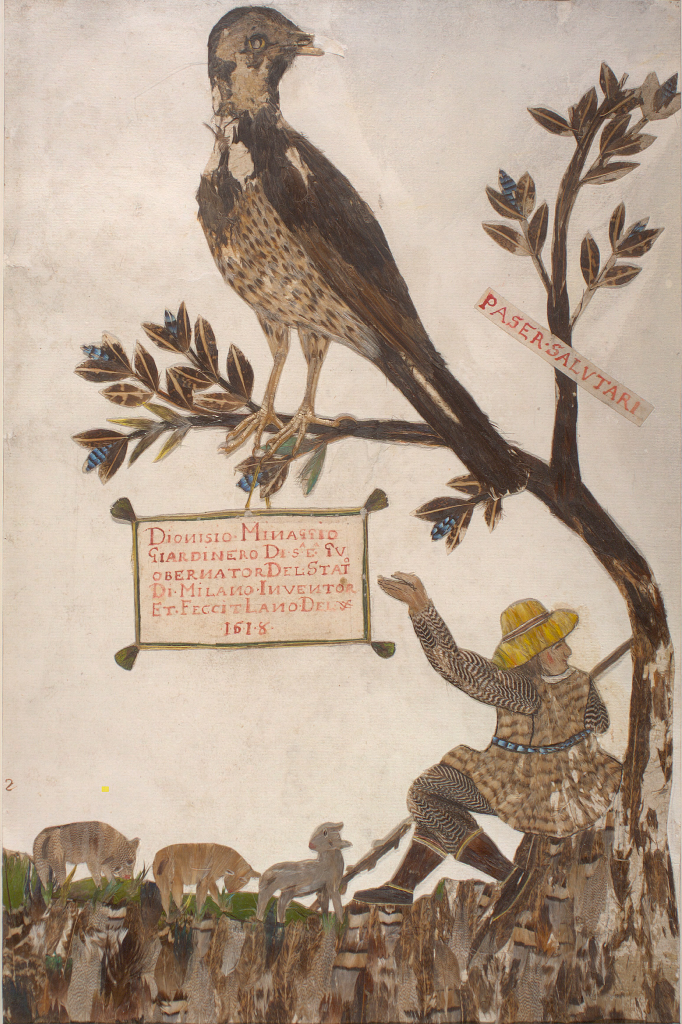 Title page of The Feather Book, a series of pictures made entirely of bird feathers. The creator was Dionisio Minaggio, the Chief Gardener of the Duchy of Milan. The book primarily contained images of birds indigenous to the Lombardy region of Italy but also contained sets of images depicting hunters, tradesmen, musicians and commedia dell'arte characters. The bird depicted here is the female Blue Rock Thrush (Monticola solitarius).